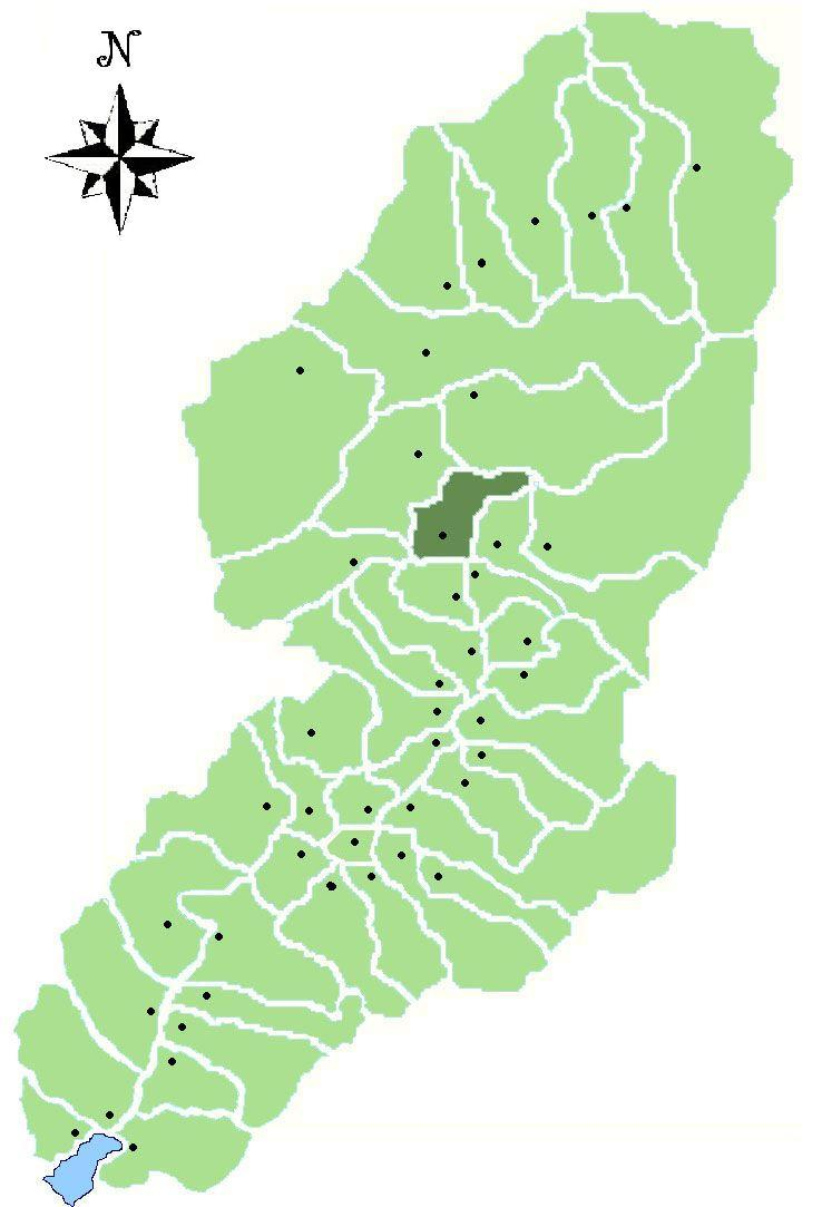 Map of the Comune di Berzo Demo, Valle Camonica